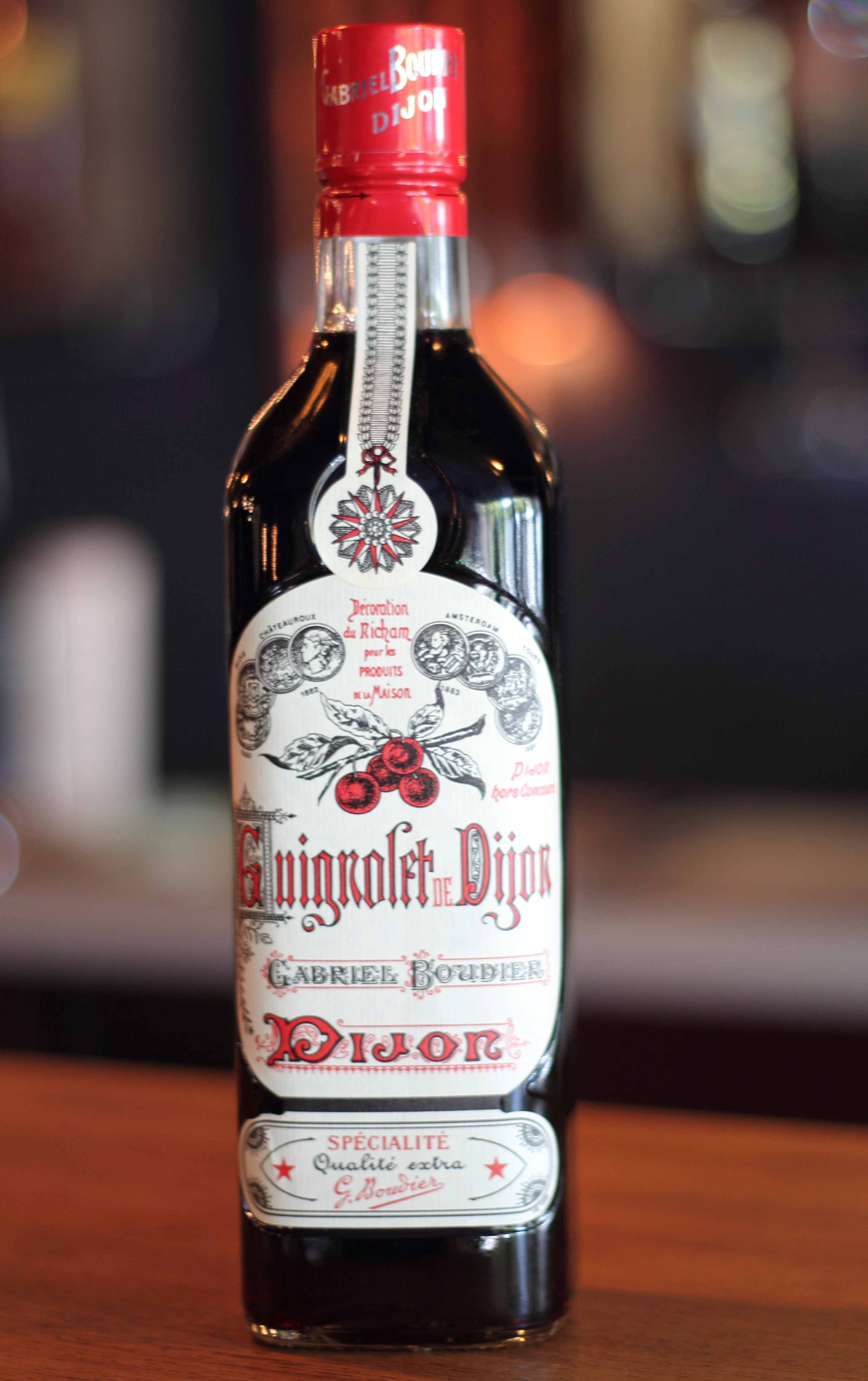 A bottel of creme de cassis - Guignole de Dijon from Gabriel Boudier.